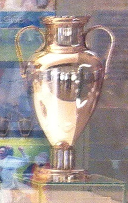 Original European Cup trophy at the Real Madrid museum